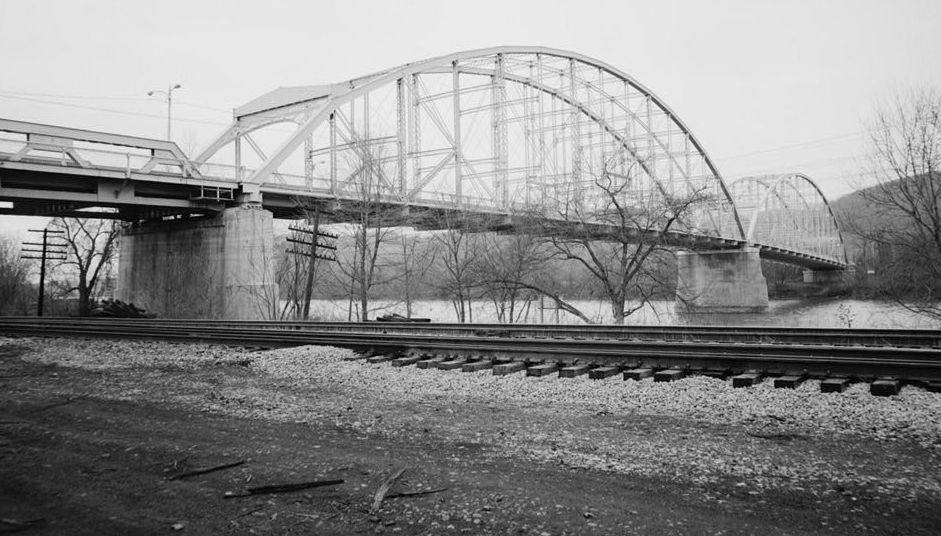 HAER PA,2-CORA,1-7 Photographer: (Views 1-27) Robert C. Shelley P.A.C. Spero & Company April 1989 PA-217-7 EAST ELEVATION, OBLIQUE VIEW FROM SOUTHEAST Coraopolis Bridge image, from Coraopolis side, showing part of pony truss and 2 main spans, retrieved from Historic American Engineering Record